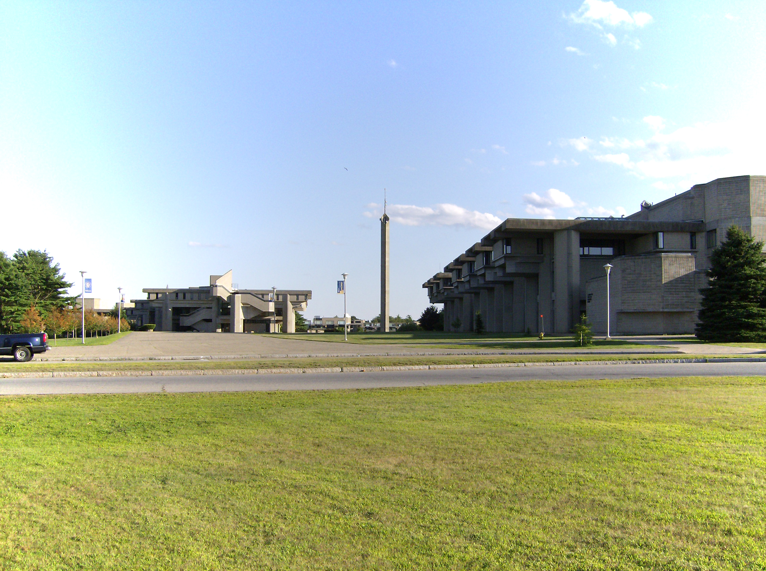 The University of Massachusetts Dartmouth campus. Pictured are the Liberal Arts Building (left), the campanile (center, foreground), the Visual and Performing Arts Building (center, background), and the Science and Engineering Building (right).